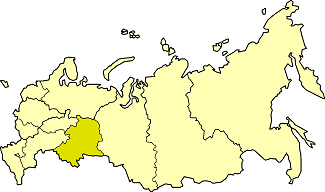 urals economic region based on Image:Economic regions of Russia.png